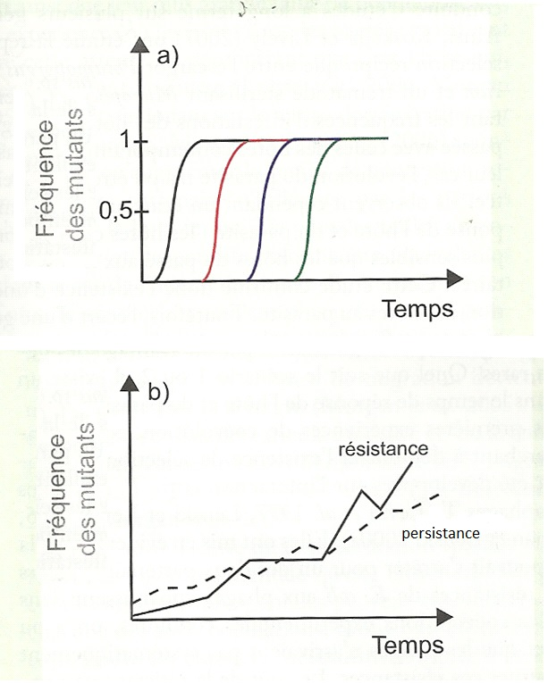 a) Evolution temporelle des fréquences alléliques dans la population persistante/résistante (4 allèles figurés). b) Evolution temporelle de la persistance et de la résistance dans chacune des 2 populations. Adapté de Thomas, Lefèvre, Raymond (2010) Biologie évolutive. Edition De Boeck : Bruxelles. pp. 635-636